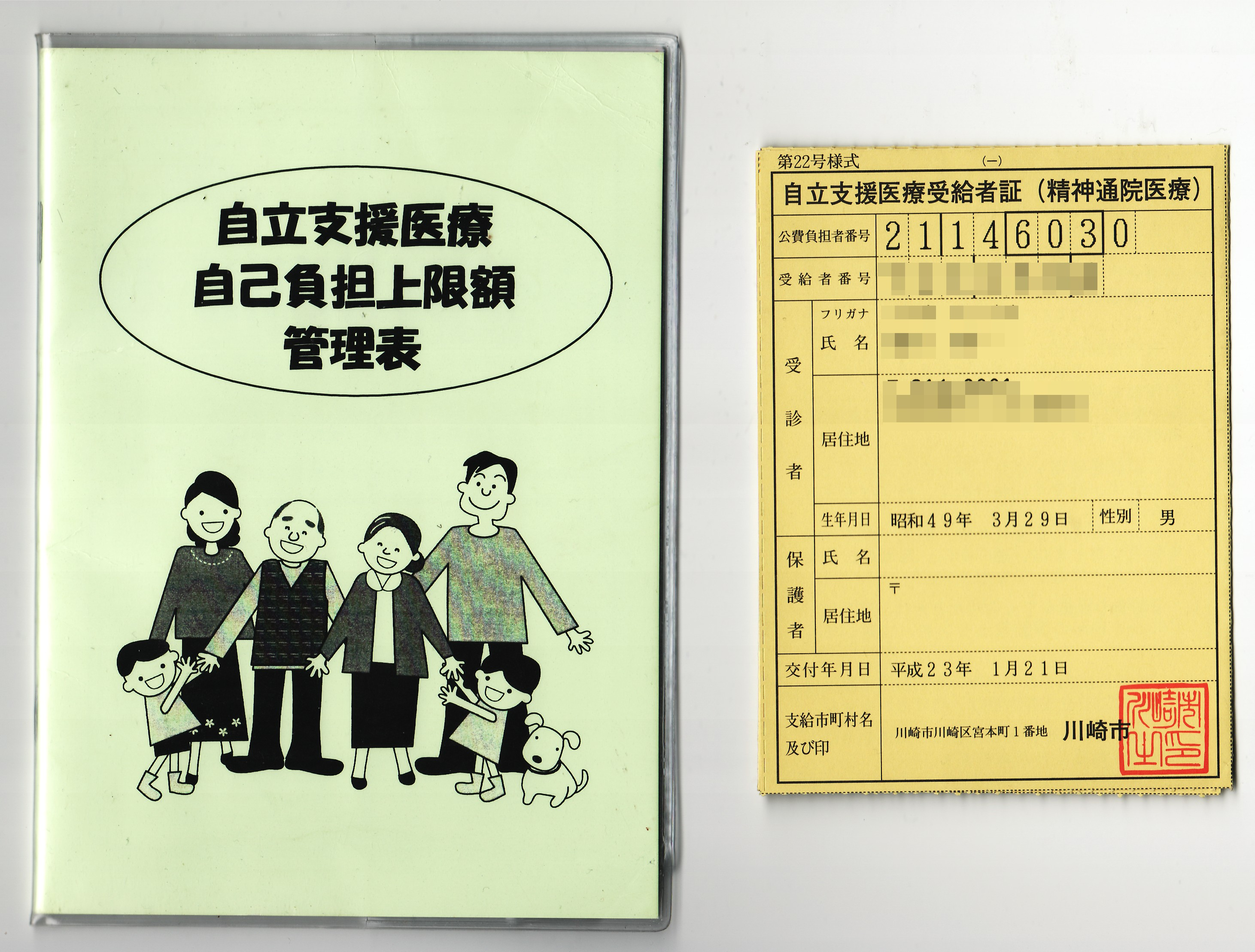 Japanese Handicapped person independent support modulo Individual payment upper limit amount management table